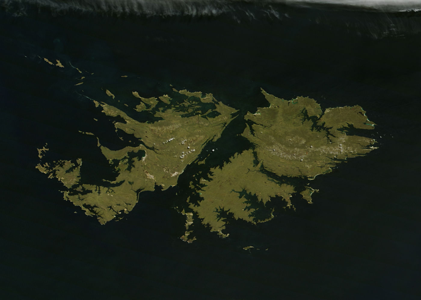 The green lands Falkland Islands sparkle in the southern Atlantic Ocean about 250 nautical miles (460 miles) off the coast of southern Argentina. Also known as Islas Malvinas, the archipelago consists of over 775 islands and is a self-governing British Overseas Territory. On January 23, 2011 the Moderate Resolution Imaging Spectroradiometer (MODIS) aboard the Terra Satellite captured this true-color image as it passed over the region. The resolution is 250 meters per pixel.